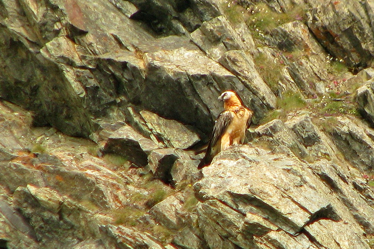 Gypaetus Barbatus on the rocks in the Gran Paradiso National Park (Cogne, Aosta Valley, Italy)